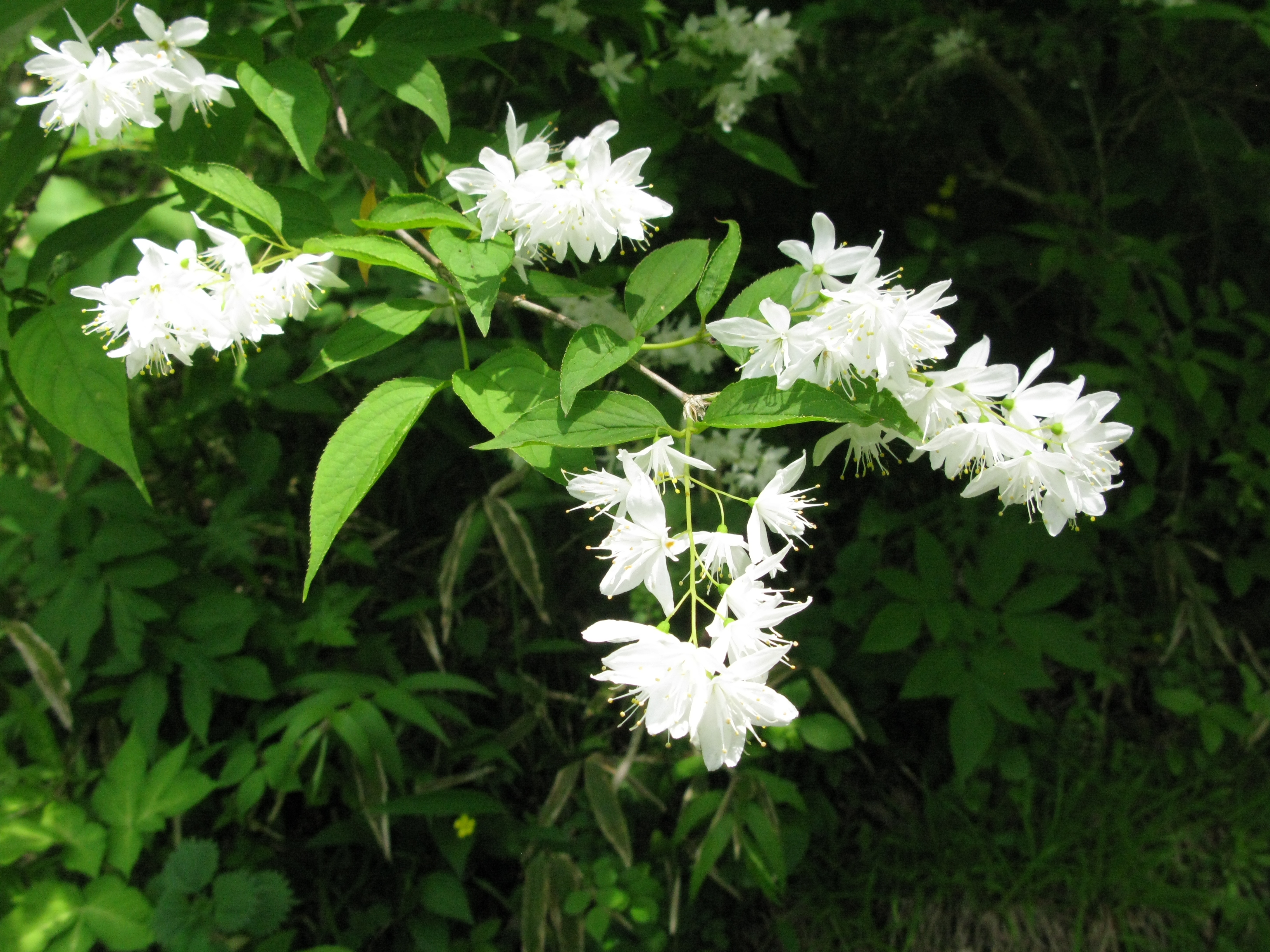 Deutzia gracilis, Botanical Gardens, Nikko, Graduate School of Science, The University of Tokyo, Tochigi pref., Japan